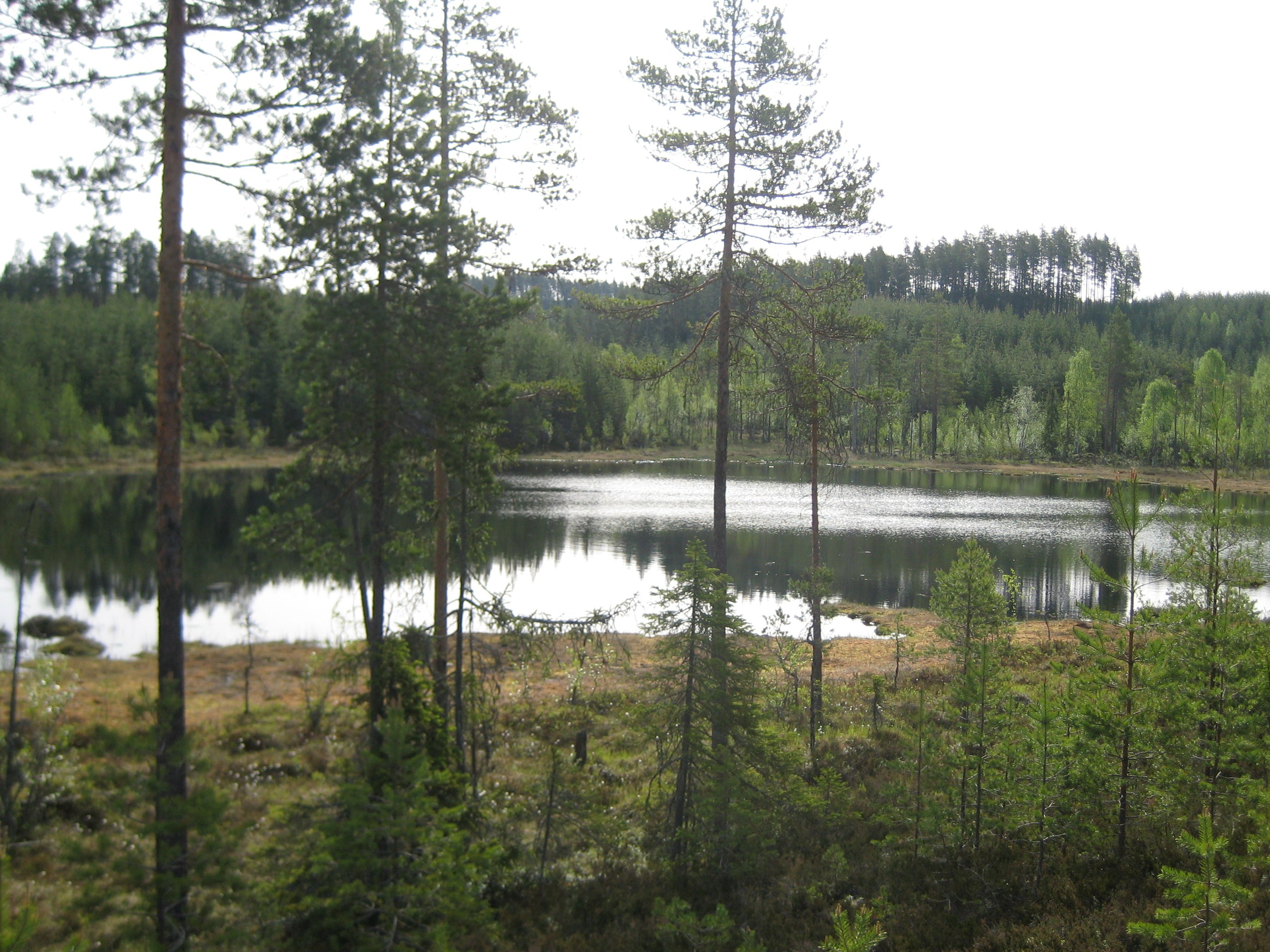 Picture of a lake in Finnskogen (Torsby kommun/Värmland/Sweden